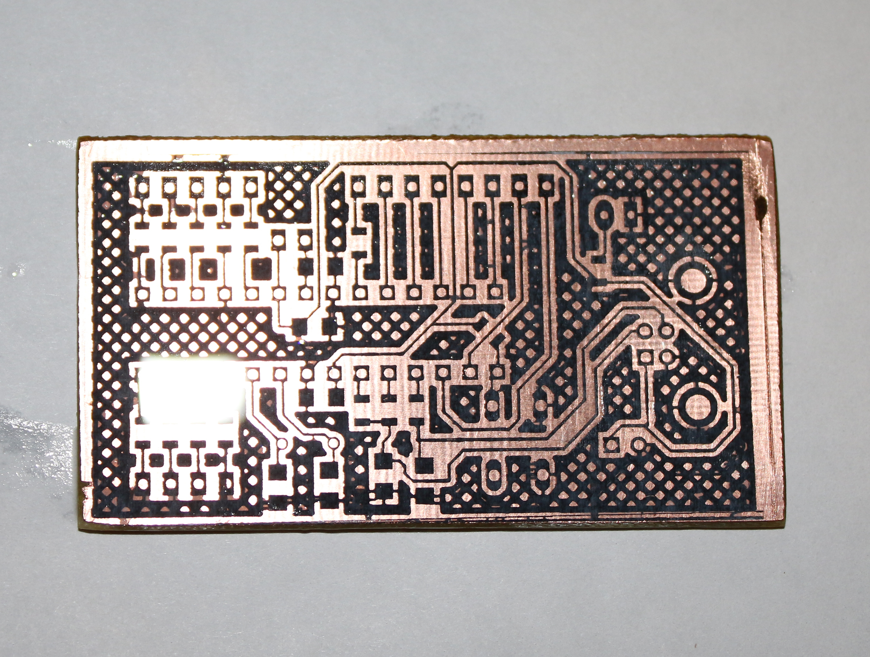 PCB prepared for etching. Iron Toner Transfer for PCB Making